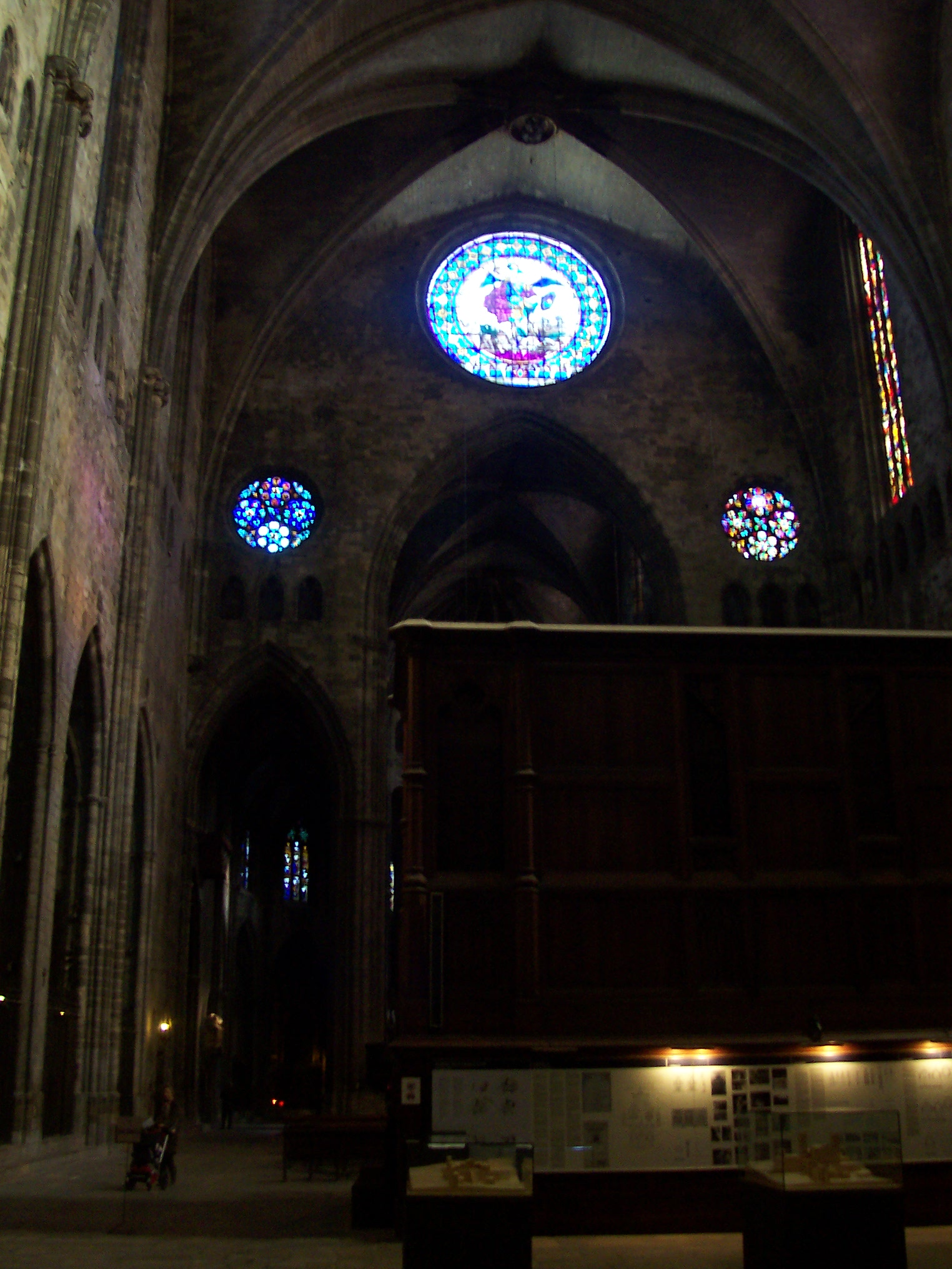 Inside of the central plant of the Cathedral of Girona, Catalonia, Spain.